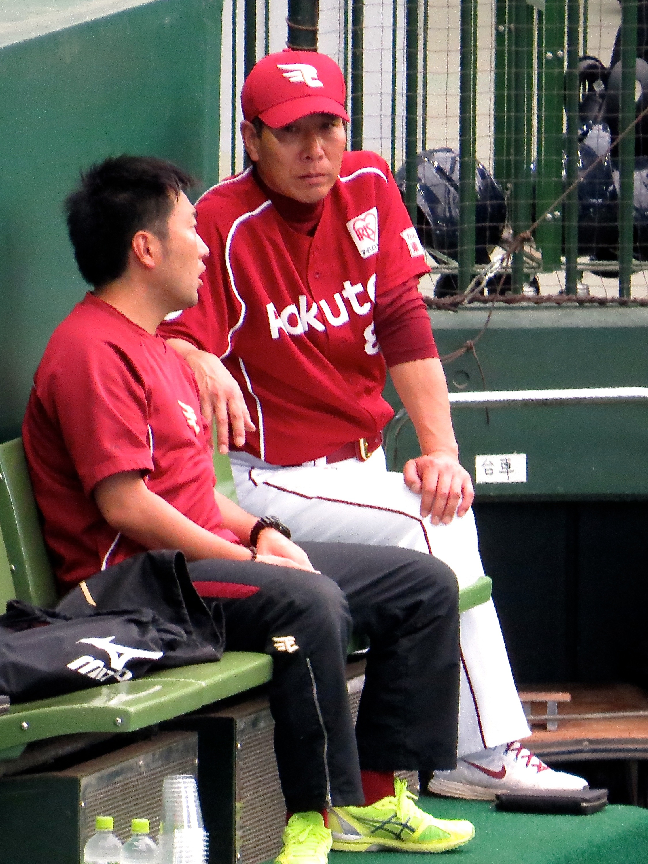 Hiroshi Takamura, coach of the Tohoku Rakuten Golden Eagles, at Seibu Dome.